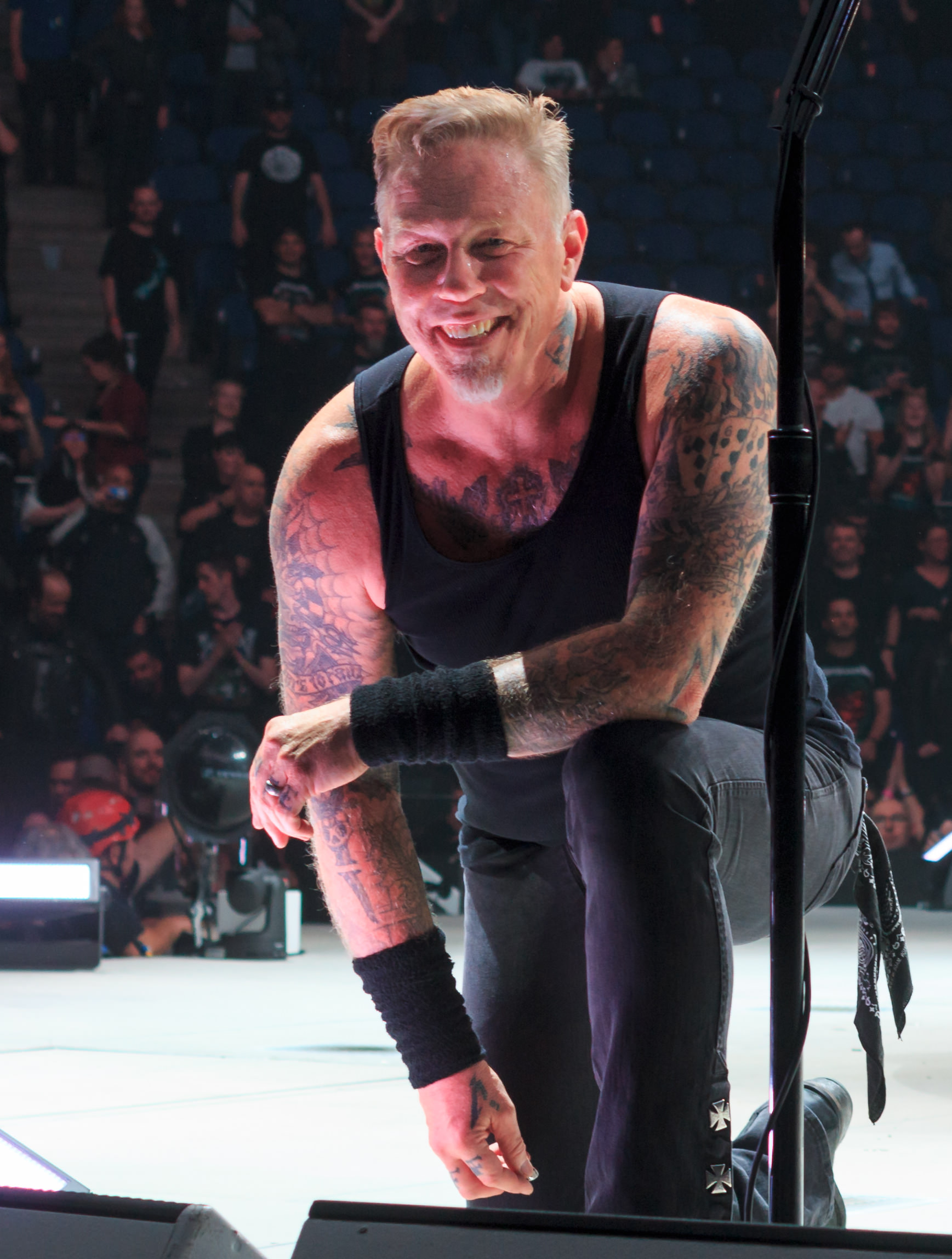 James Hetfield (kneeling) live in London 24 October 2017